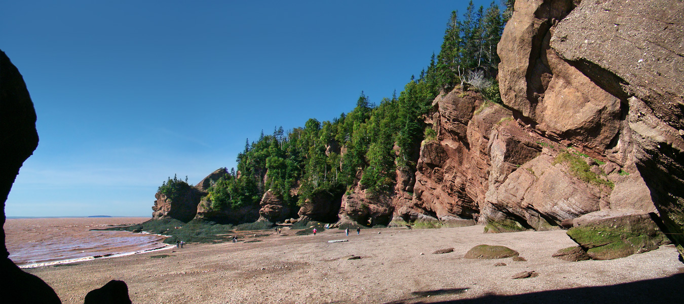 Hopewell Rocks, Bay of Fundy, New Brunswick, Canada.